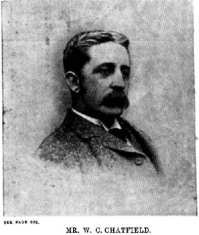 Photo of William Chatfield from The Cyclopedia of New Zealand